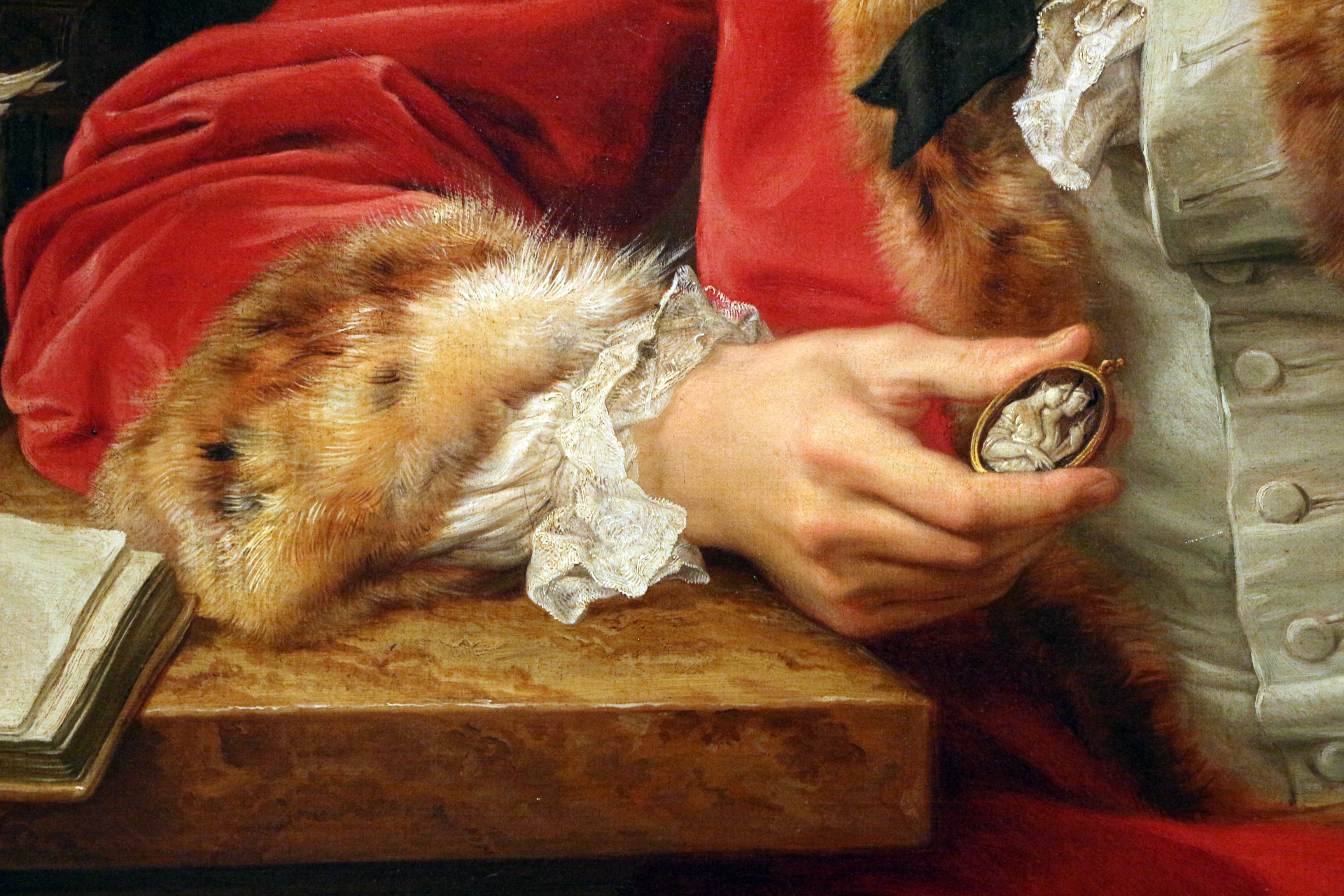 Italian paintings in the Art Institute of Chicago